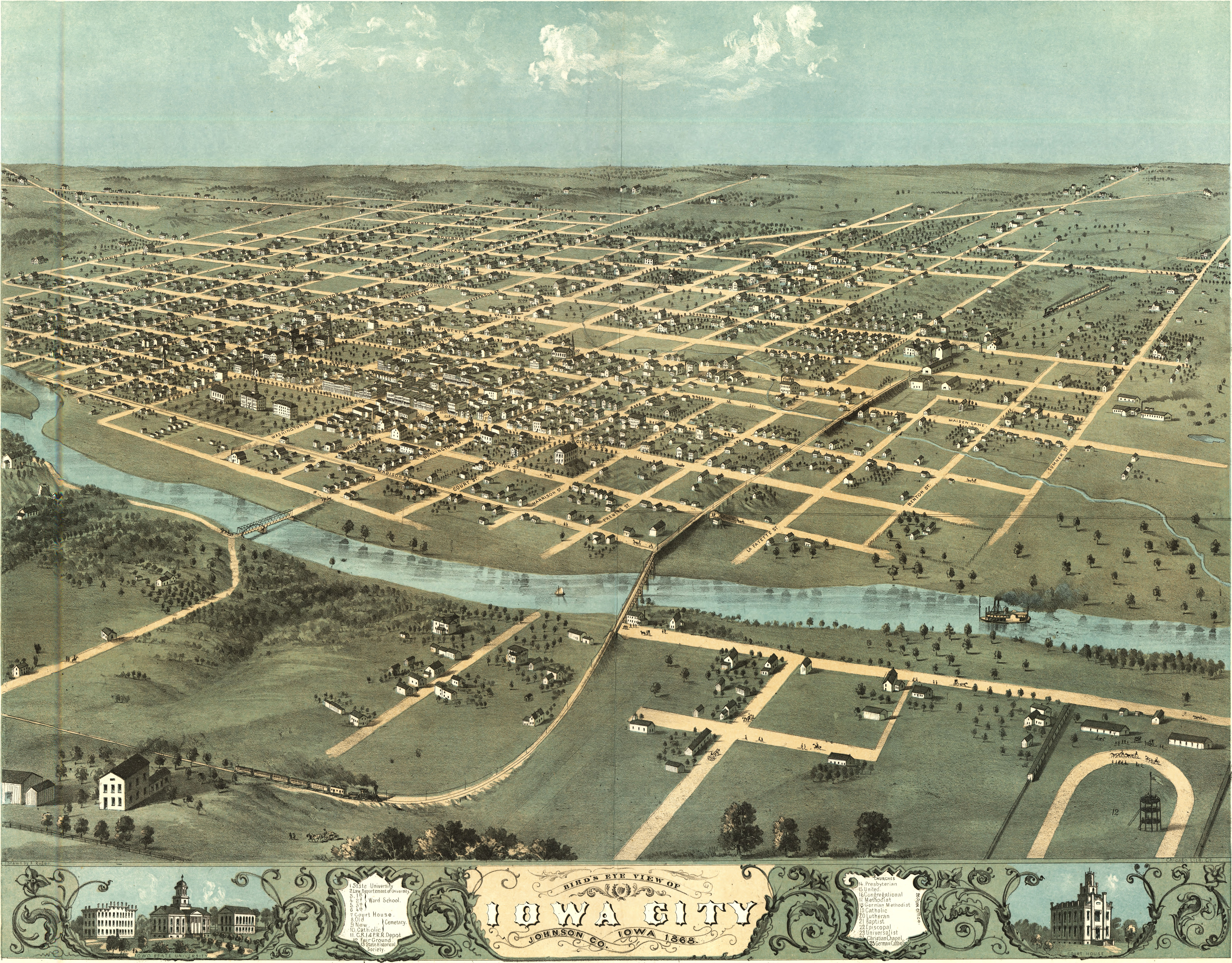 A birdseye view of Iowa City, Iowa in 1868. Perspective map; not drawn to scale.